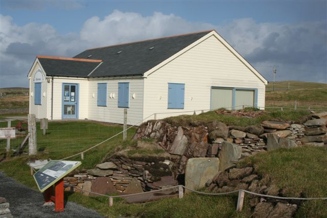 Bressay Heritage Centre with relocated burnt mound from Cruester The burnt mound at Cruester was in danger of being totally eroded by the sea and in 2008 it was re-excavated and relocated to a new site beside the Bressay heritage centre.